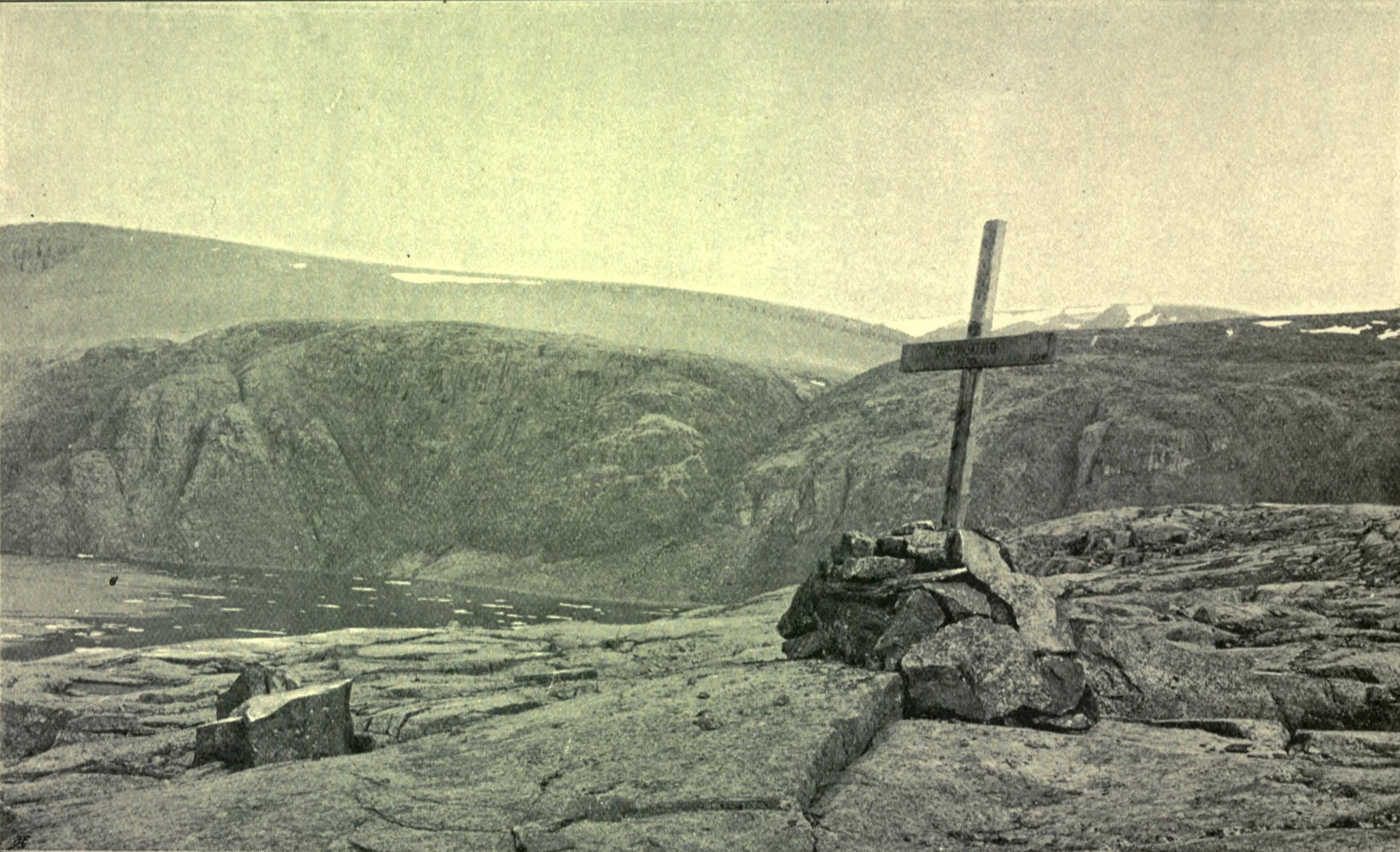 Tomb of Uwe Braskerud, fireman on the ship "Fram", a participant in the Norwegian Arctic Expedition (1898-1902) led by Otto Sverdrup.